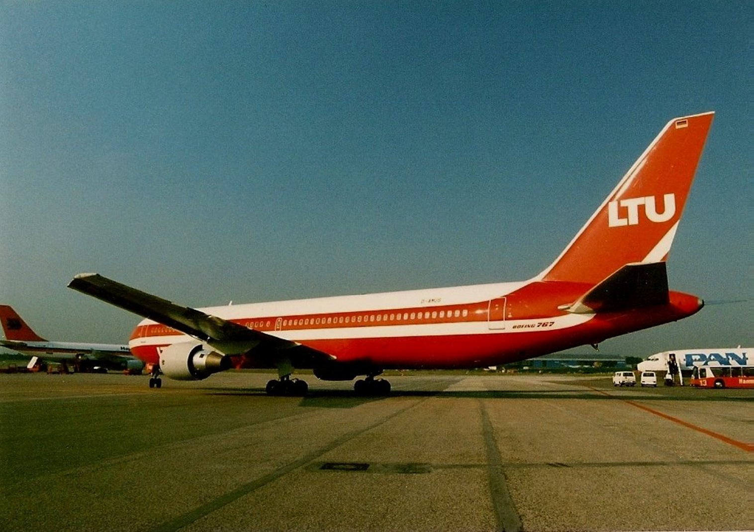 LTU-Süd Boeing 767 D-AMUS at the Hamburg Airport Fuhlsbüttel